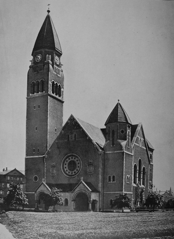 Plauen (Vogtland), view of Marcus the Evangelist Church from south-east.